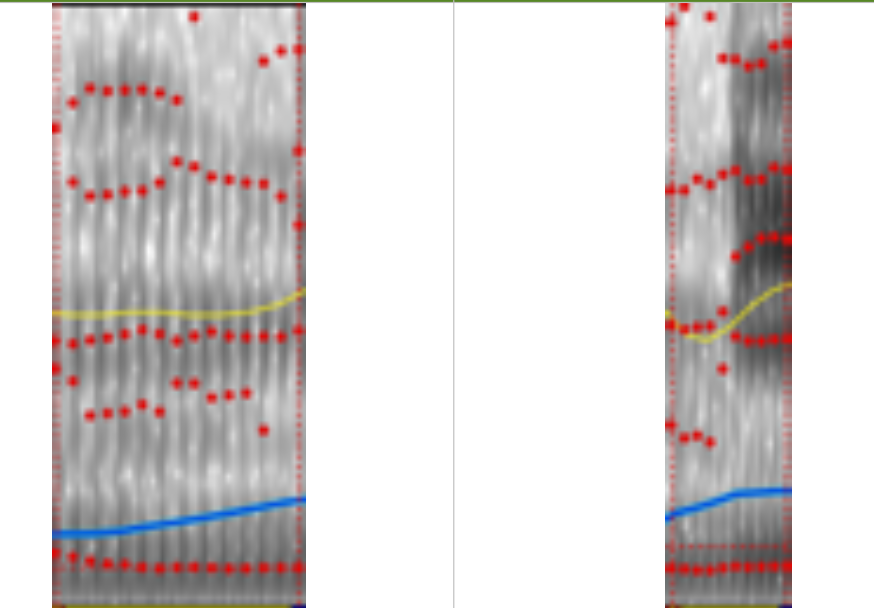 nasal feature